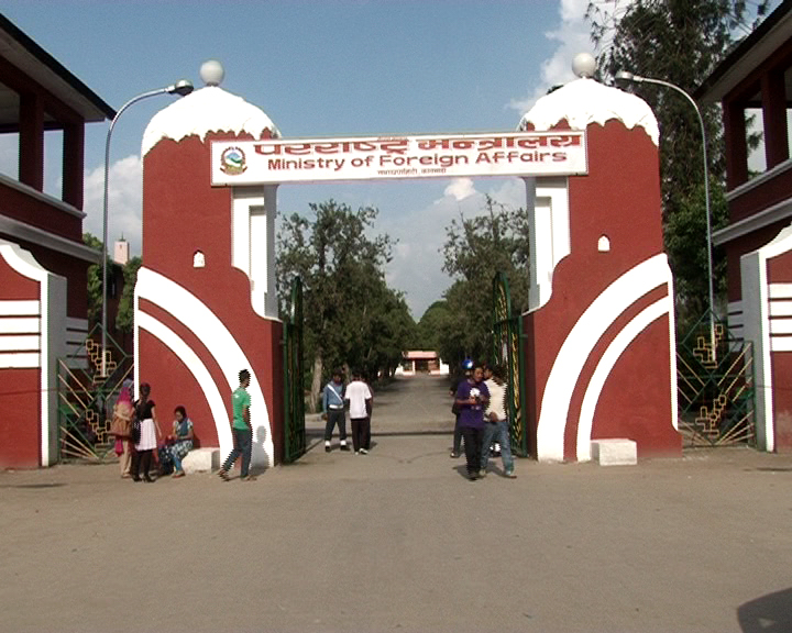 Nepal_foreignministry building